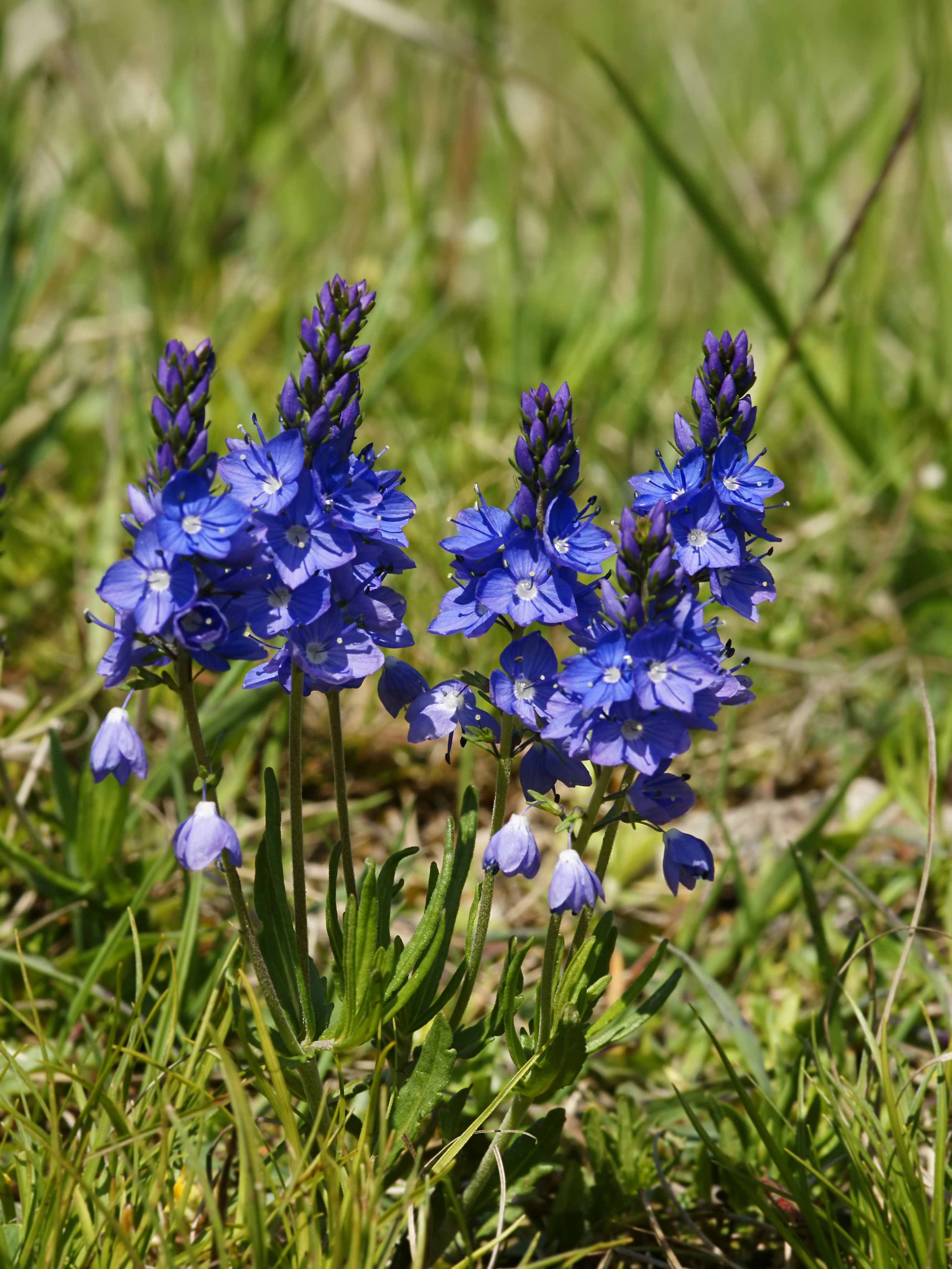 The in Belgium rare Sprawling Speedwell. Approximate co-ordinates: plant located within 3 km from Dourbes.